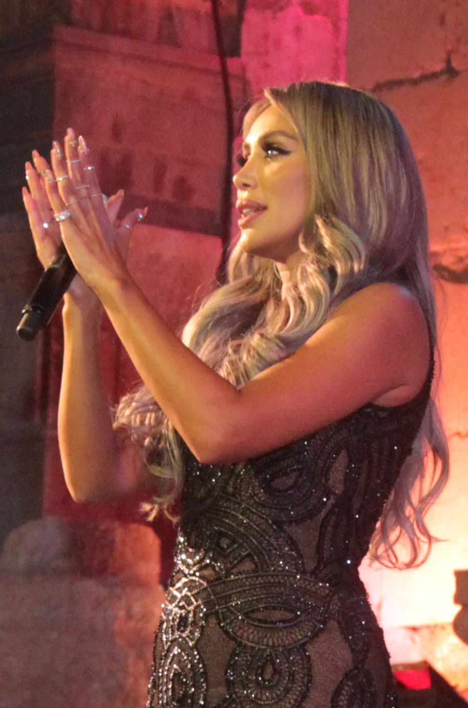 Maya Diab, Jerash Festival, 31 July 2015 (01)